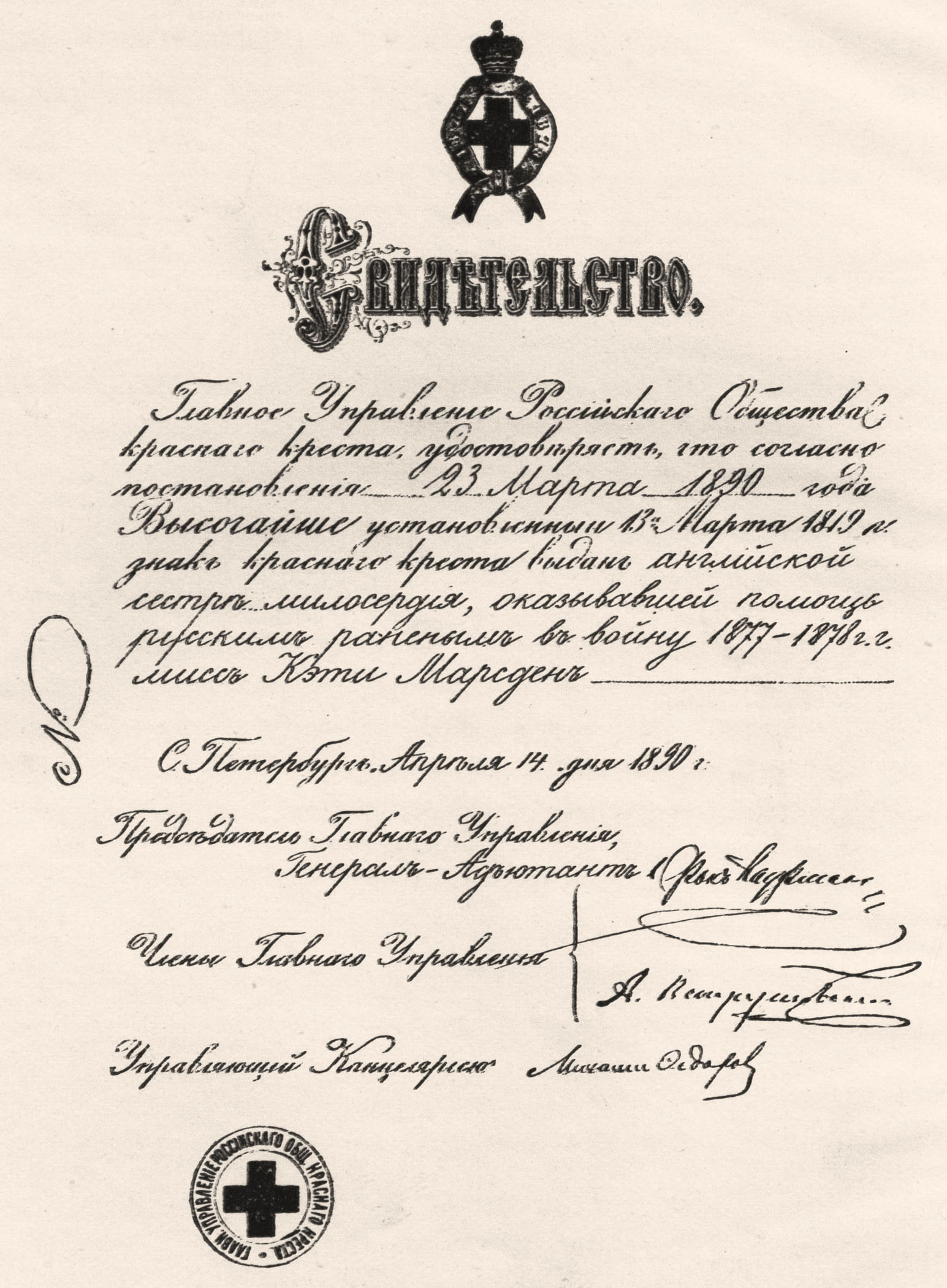 Kate Marsden's diploma of Russian Imperial Red Cross Society. Illustration from Marsden's book "On Sledge and Horseback to the Outcast Siberian Lepers" (1892).